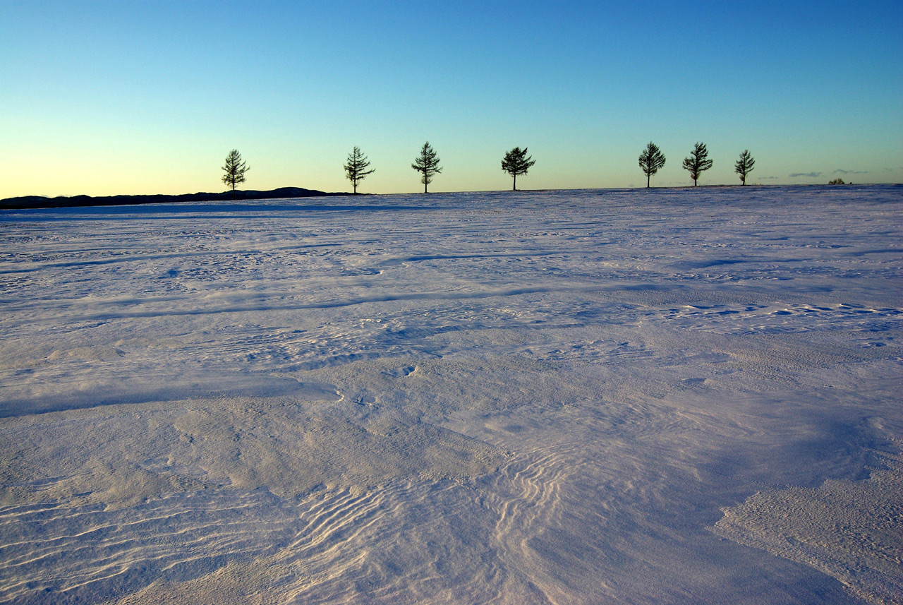 Märchen no oka in Ozora Town, Hokkaido, Japan, in late December